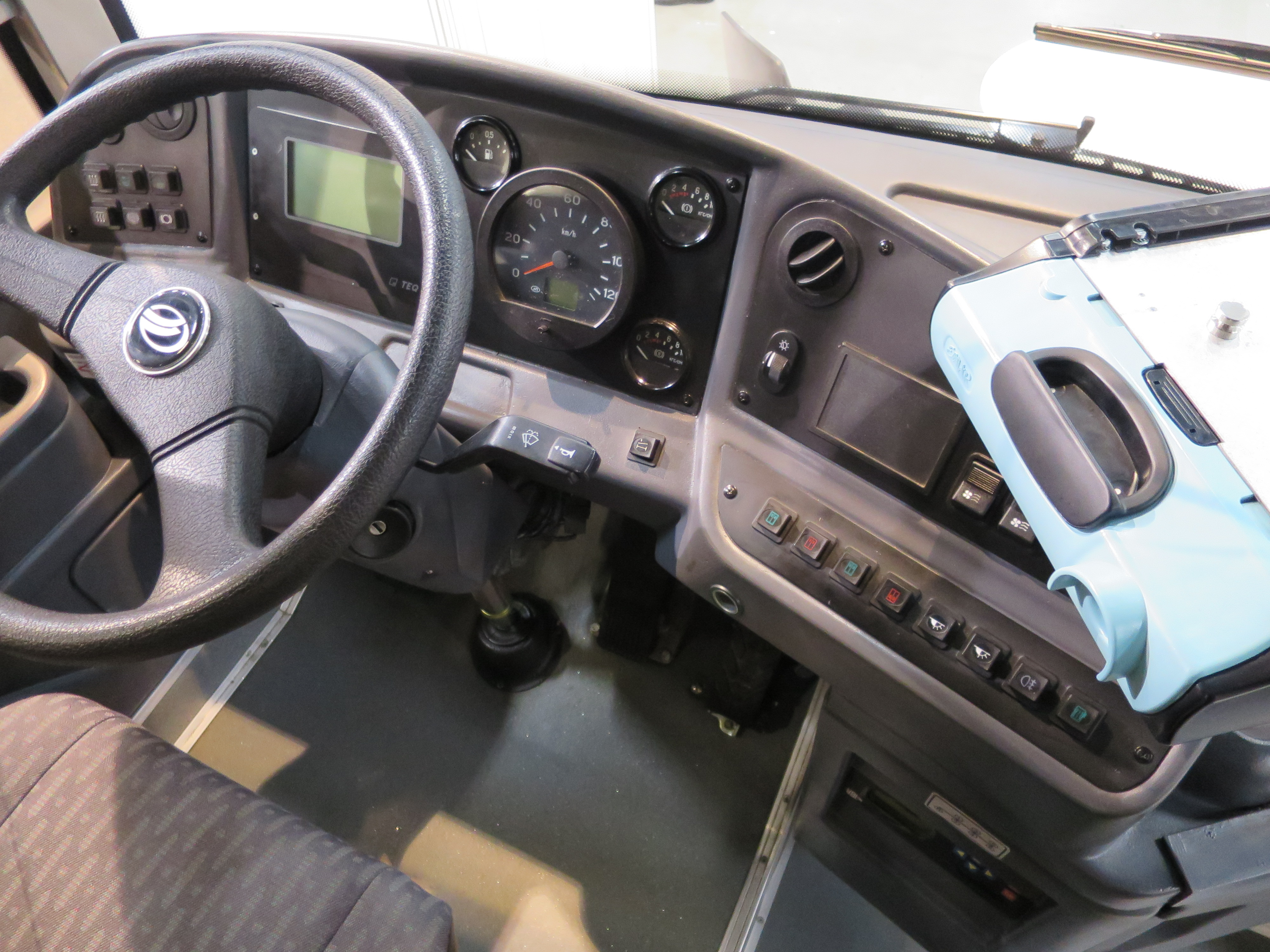 The making of this document was supported by Wikimedia Polska Association, within Wikigrant no. WG 2016-45. ZAZ A10C34